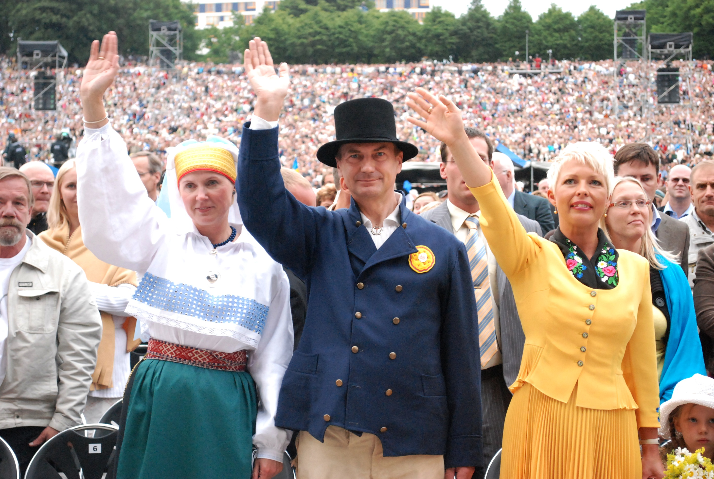 Estomian Prime Minister Andrus Ansip with his wife Anu Ansip (left) and President Toomas Hendrik Ilves's wife Evelin Ilves (right) at XXV Estonian Song Celebration in 2009.